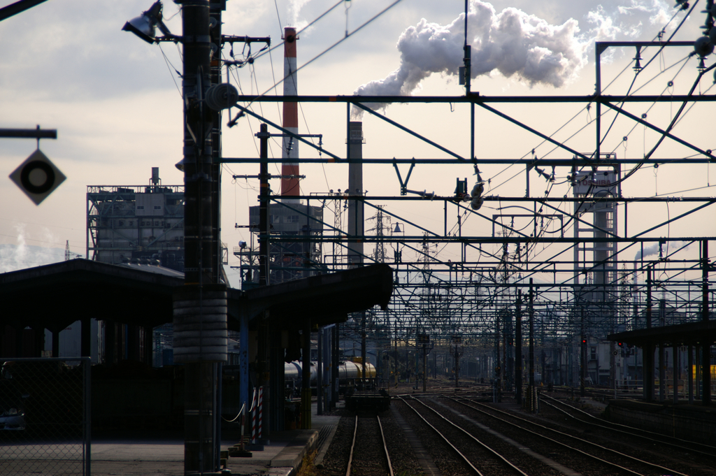 A view from Fuji Station in Fuji, Shizuoka pref., Japan. The area is home to a host of large pulp & paper factories such as Oji Paper, Nippon Paper, etc.